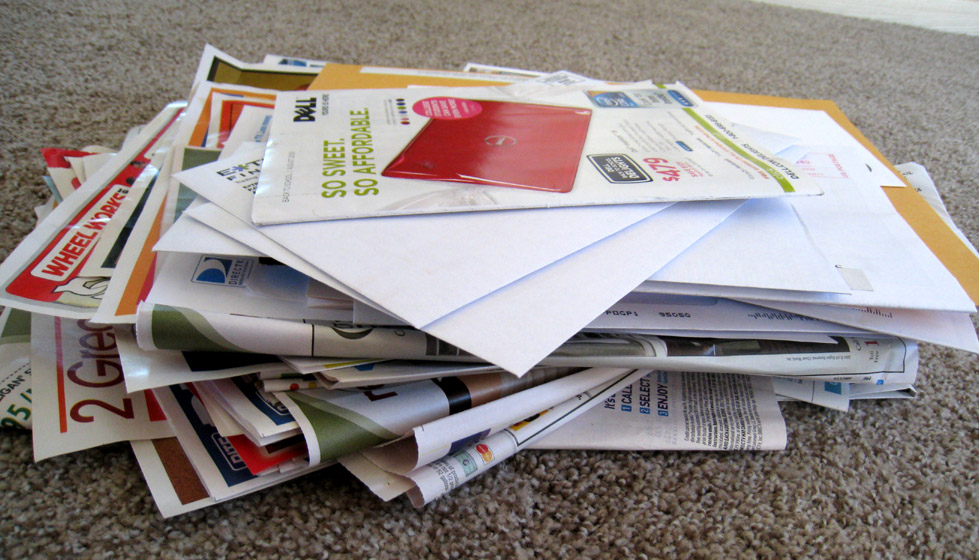 A pile of junk mail waiting upon return from a long trip.